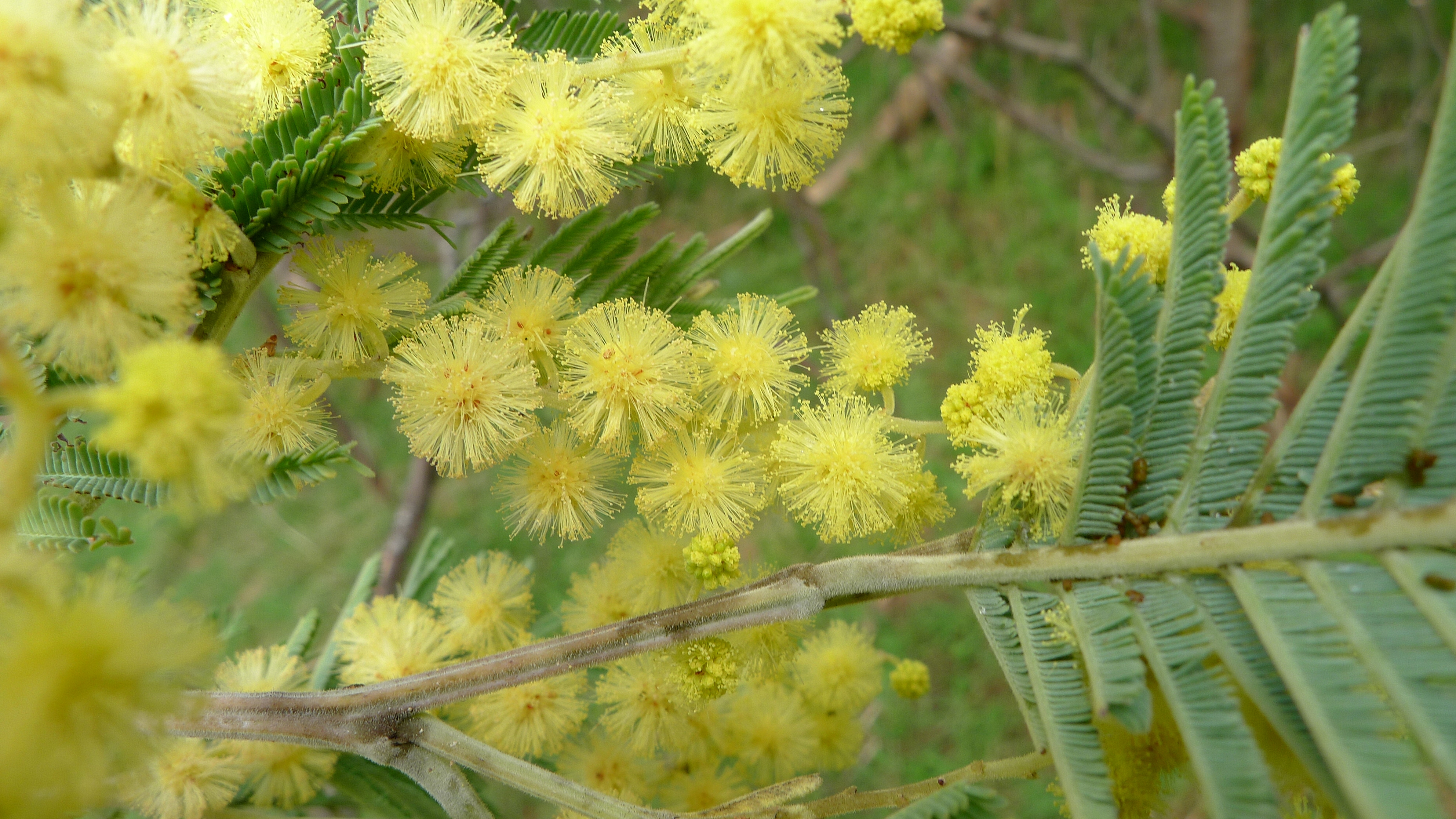 Black Wattle, Acacia mearnsii. Dargo Victoria Australia, September 2011.